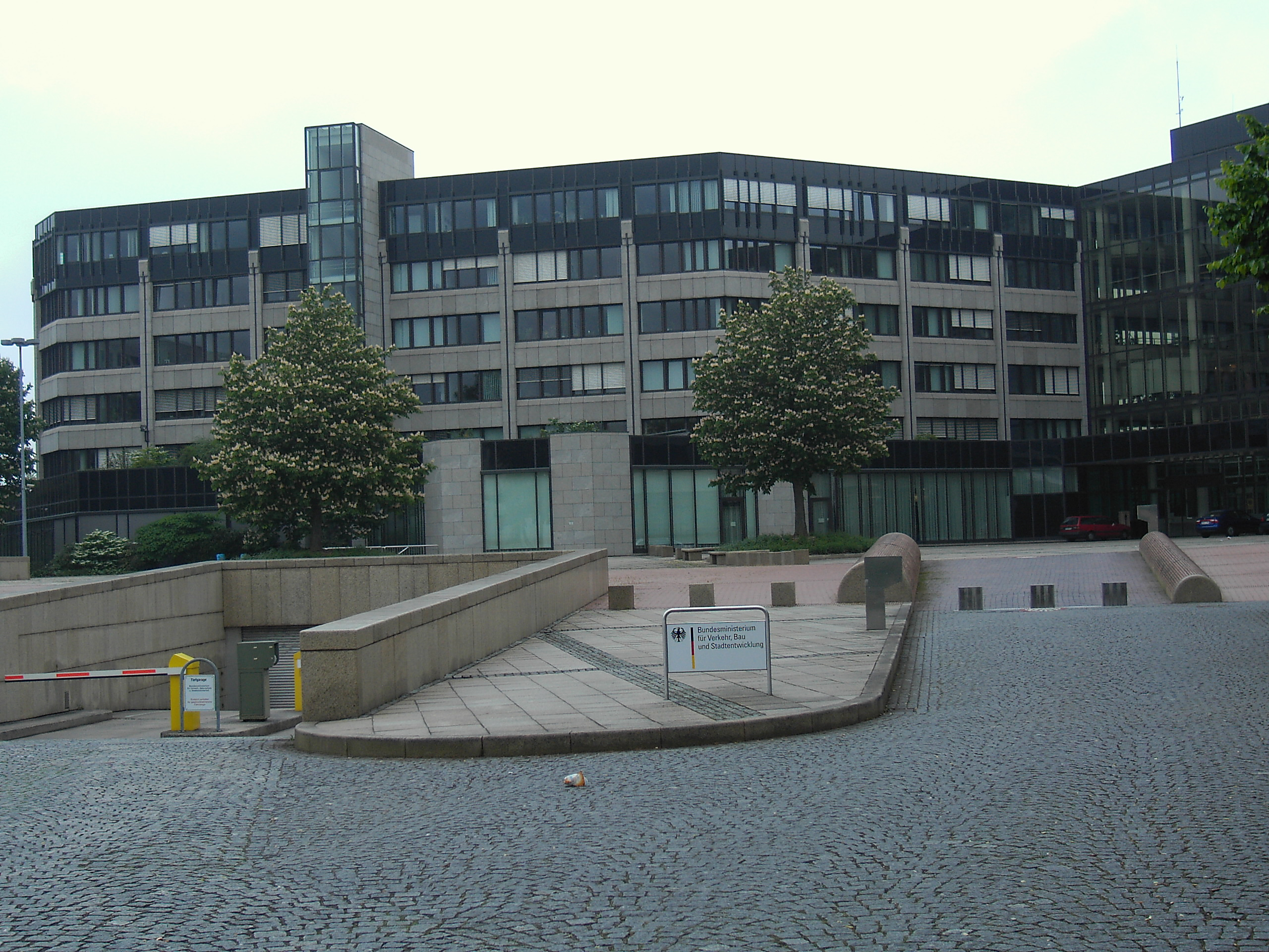 Federal Ministry of Transport, Building and Urban Affairs in Bonn. View from Robert Schuman Square.